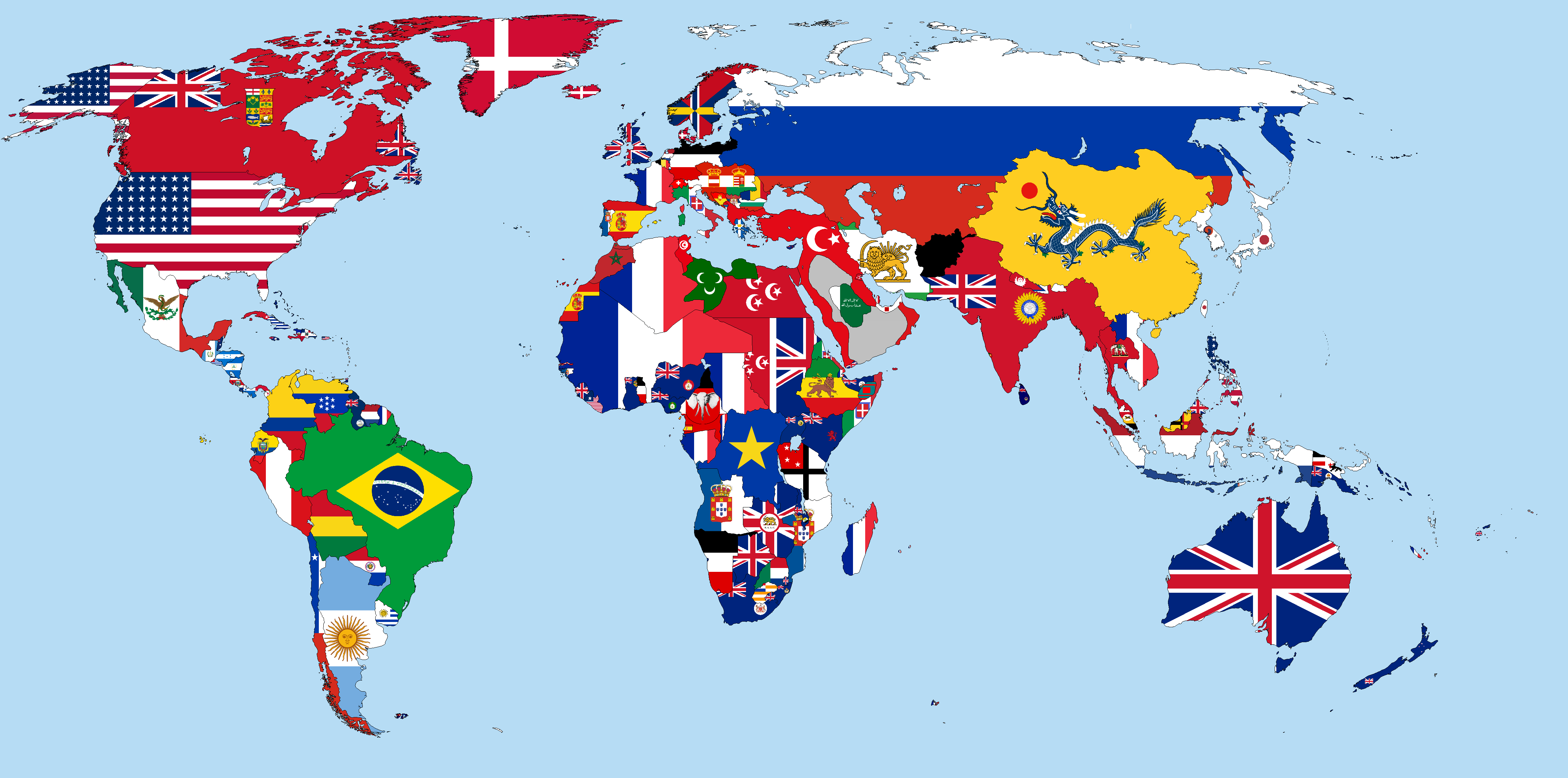 This is a world map in 1900, which shows flags of countries and colonies covering their territory. It is in Kavrayskiy VII projection. Flag maps of the world for historical use 1789 · 1900 · 1908 · 1914 · 1930 · 1935 · 1938 · 1942 · 1965 · 1970 · 1972 · 1974 · 1989 · 1990 · 1991 · 1992 · 1993 · 2010 · 2012 · 2013 · 2015 · 2016 · 2017 · 2018 (this template: • view • discuss )